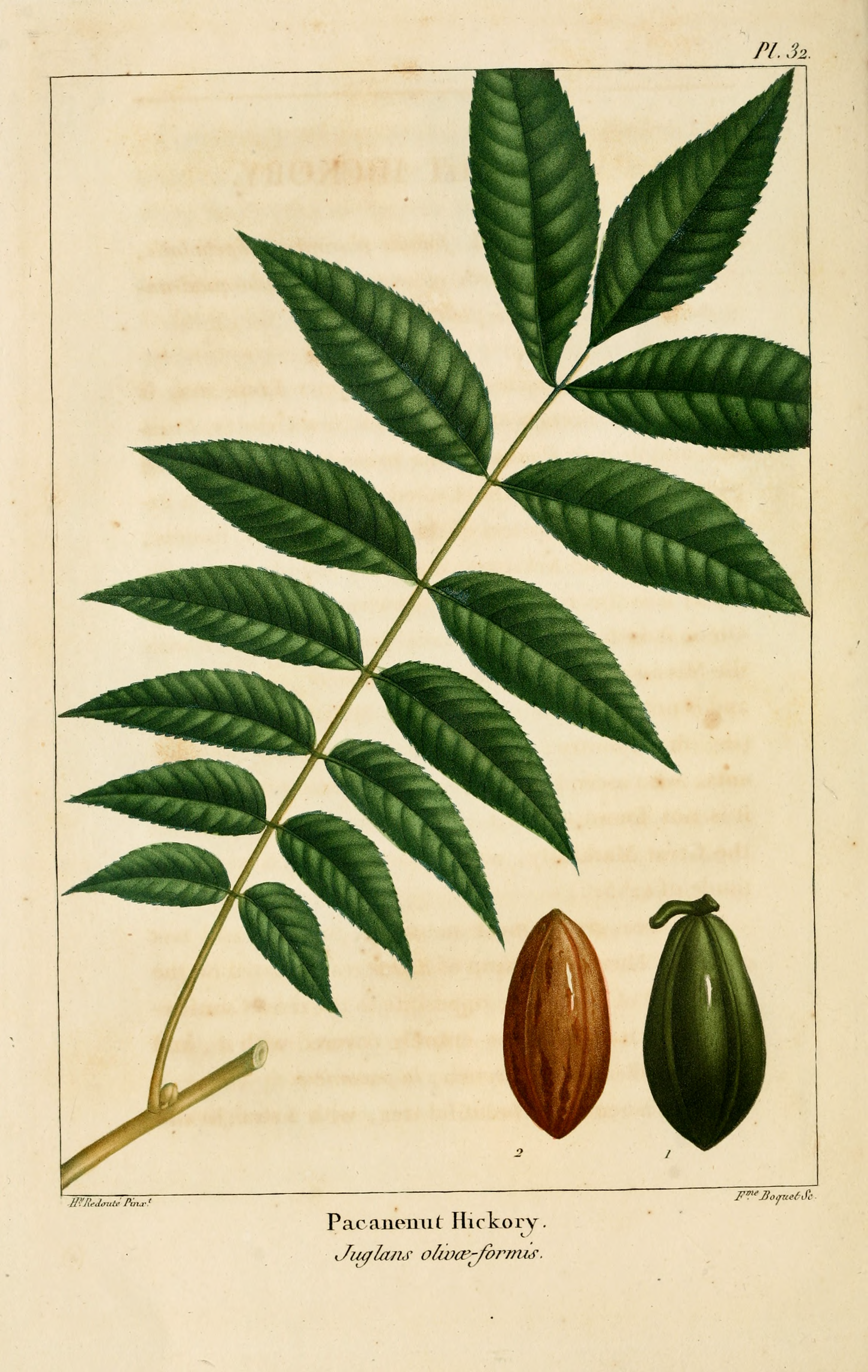 Plate 32 from The North American sylva. Carya illinoinensis (caption: Pecanenut Hickory. Juglans olivæ-formis.)